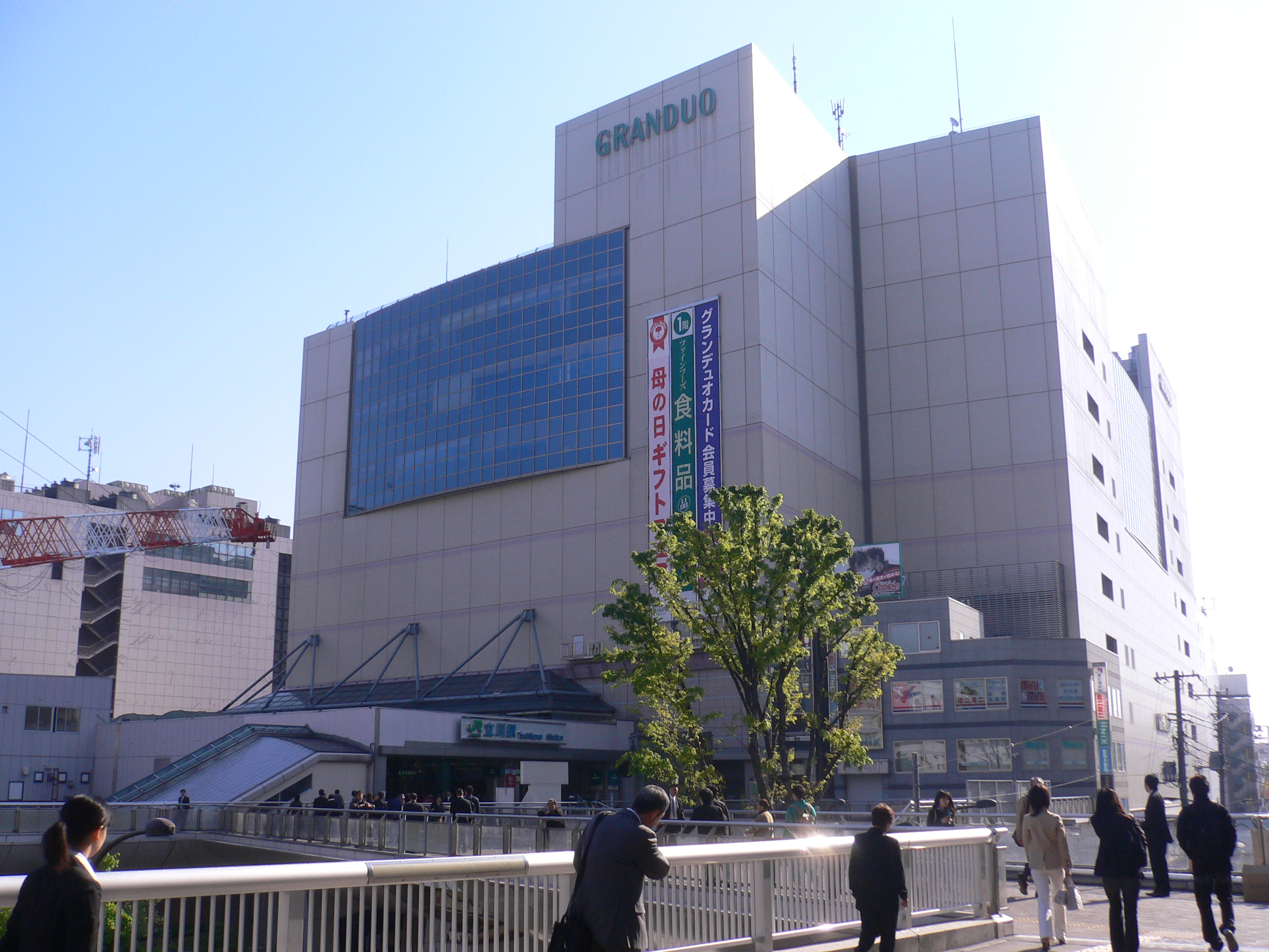 Tachikawa Station (立川駅), Tachikawa C, Tokyo M.